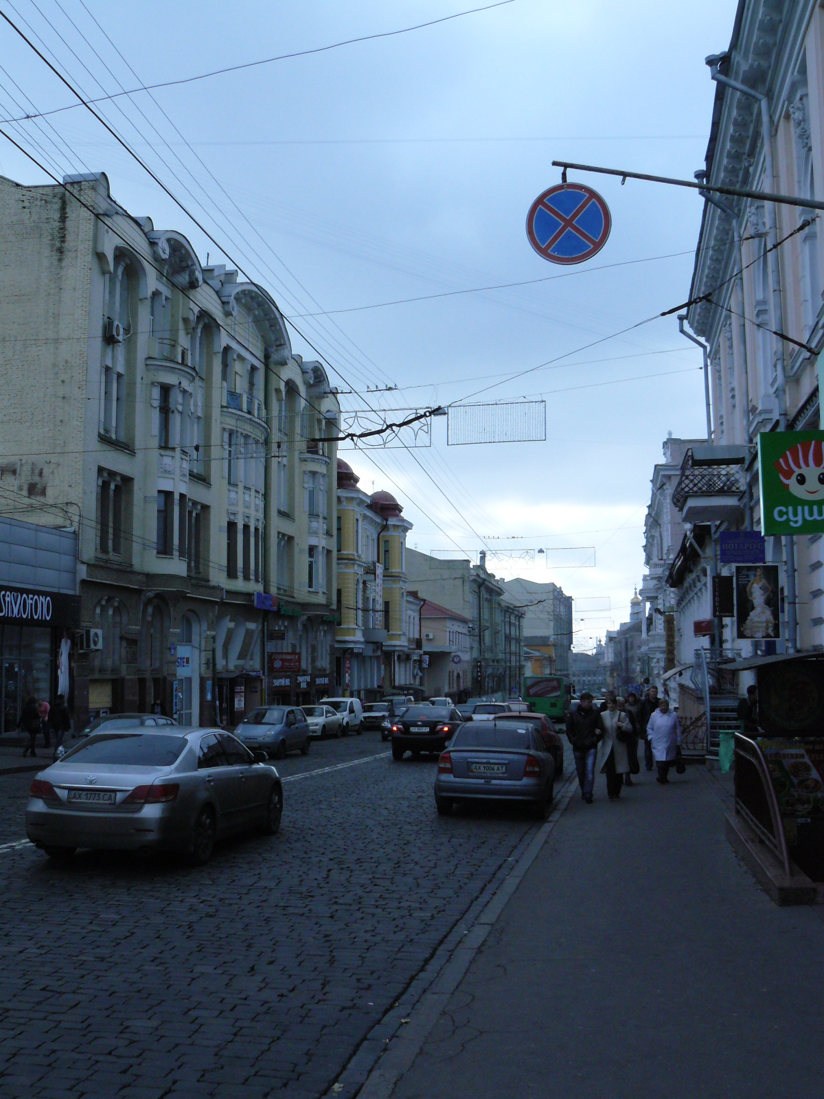 photo, Sumskaya-street, Kharkov, Ukraine